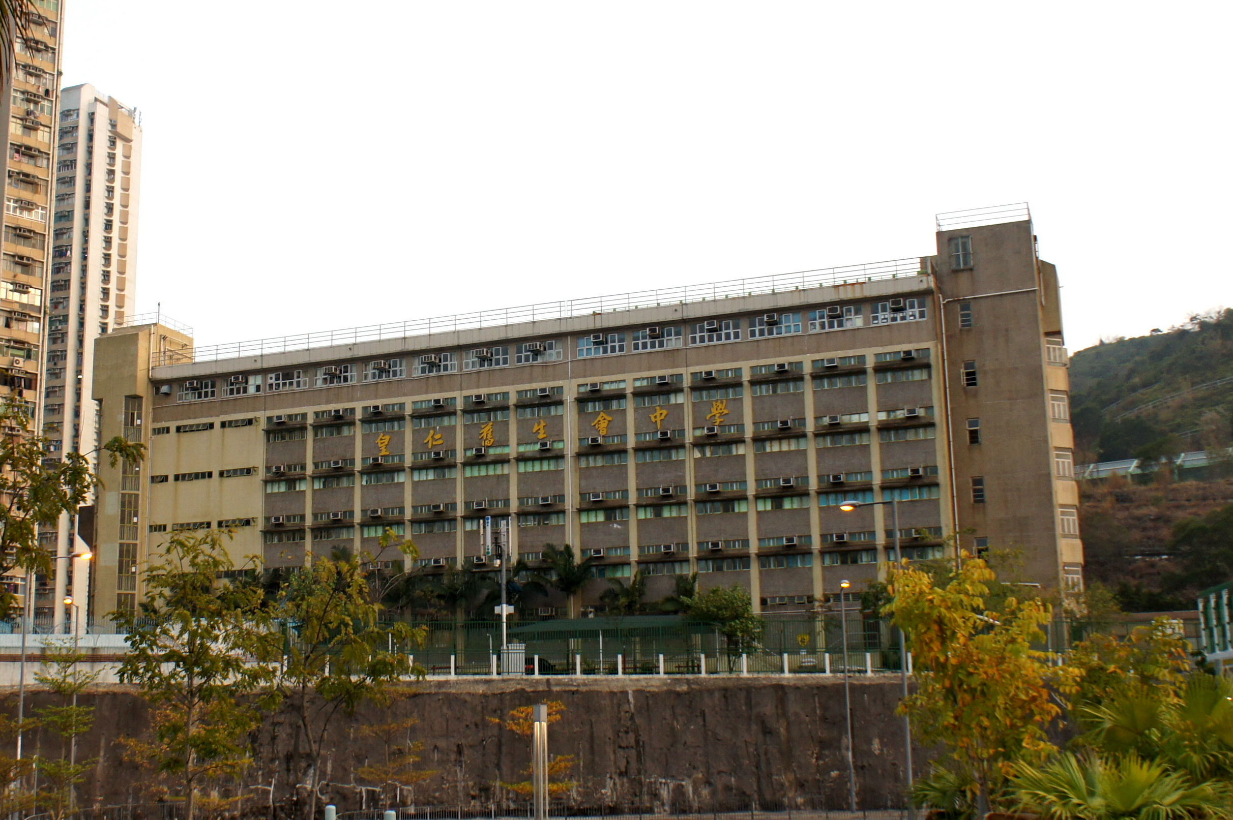 Queen's College Old Boys' Association Secondary School, Phase 1, Cheung On Estate, Tsing Yi, New Territories, Hong Kong.